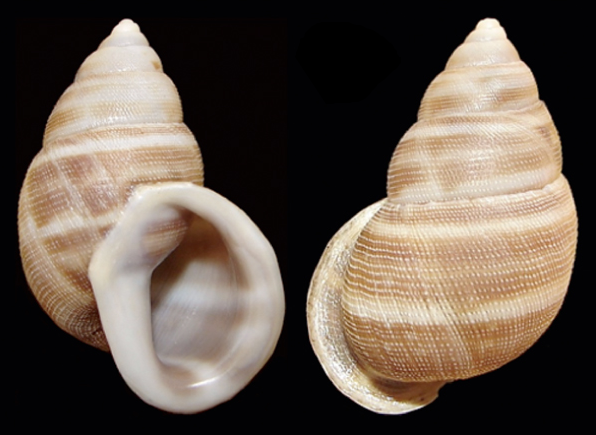 Photo of apertural and abapertural view of the shell of Scutalus mariopenai. Holotype RMNH 114055, shell height 41.1 mm.